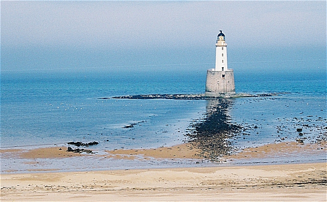 Rattray Head The causeway leading to the lighthouse is almost submerged by the rising tide. Most of this view is in NK1057, but the most prominent feature, the lighthouse, is in NK1157.